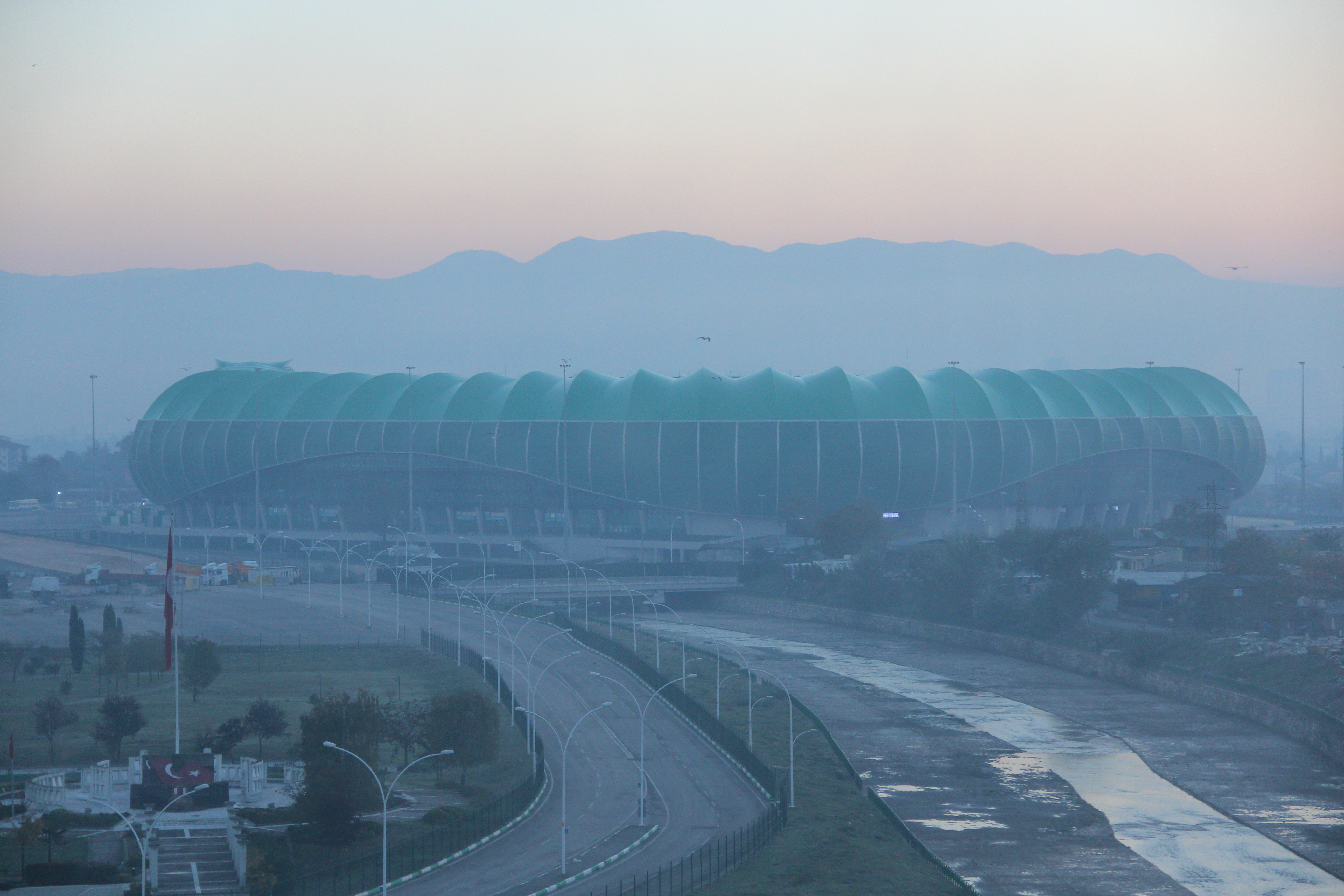 Bursa Büyükşehir Belediye Stadium 20181026